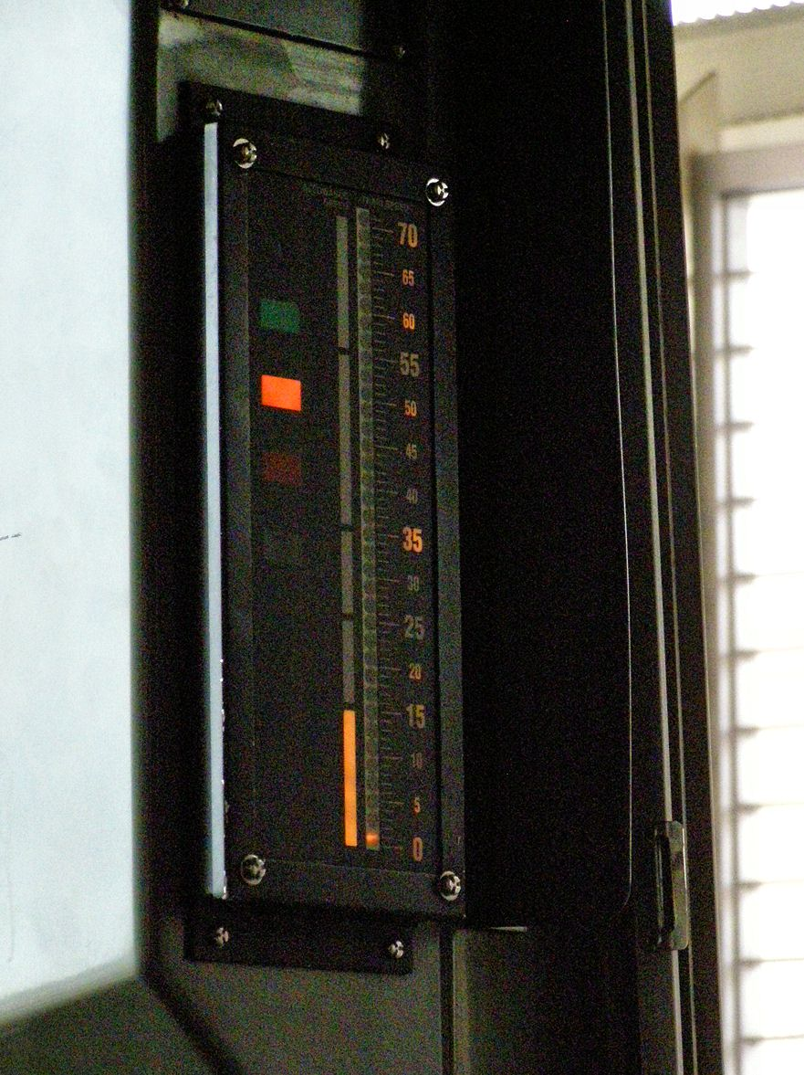 Cab signal display unit on a Chicago Transit Authority el-train. The large unbroken lines represent the different cab signal speeds.